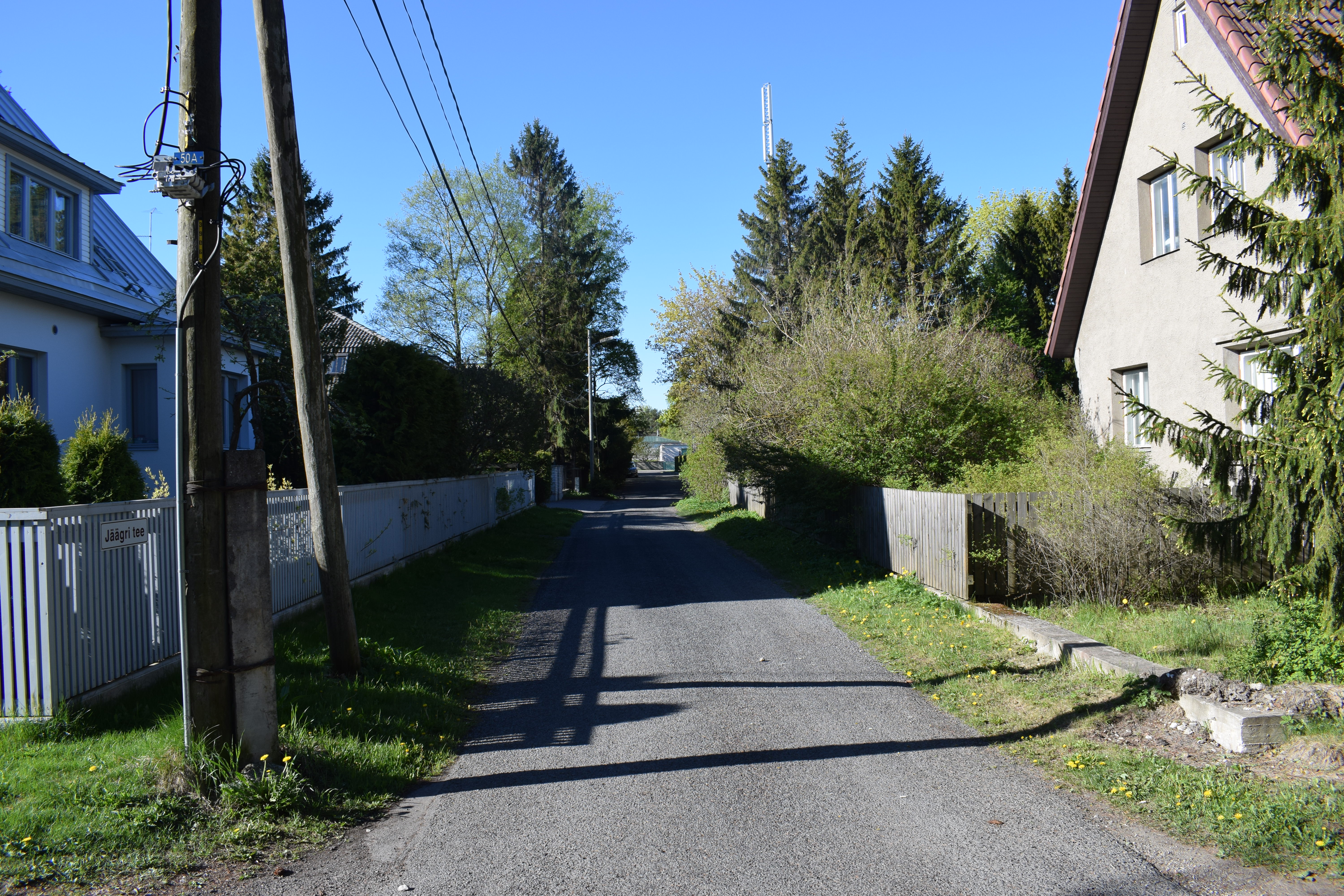 Jäägri road